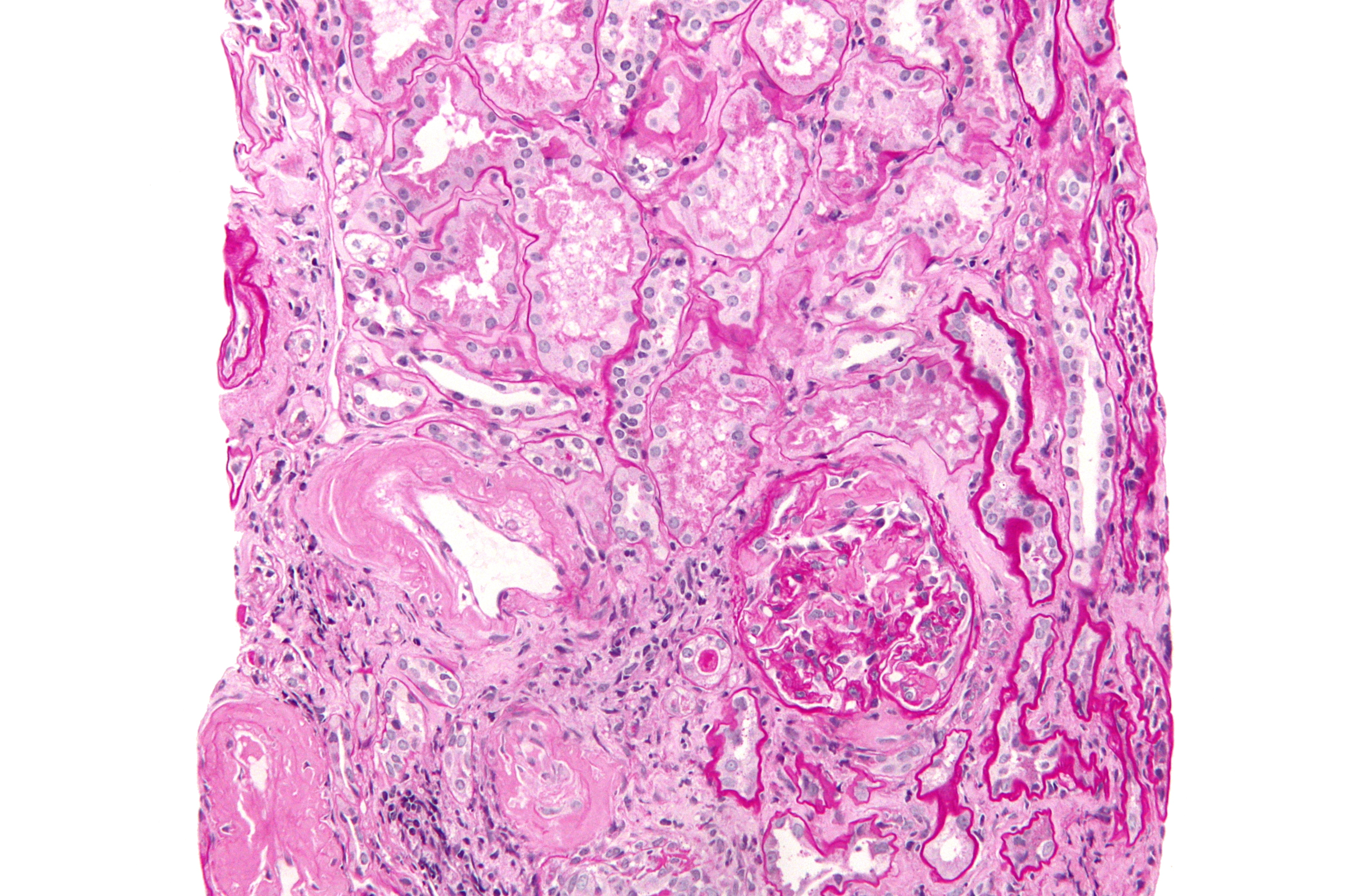 High magnification micrograph of renal amyloidosis, also known as kidney amyloidosis and amyloidosis of the kidney. Kidney biopsy. PAS stain. Related images High mag. Very high mag. High mag. Very high mag.